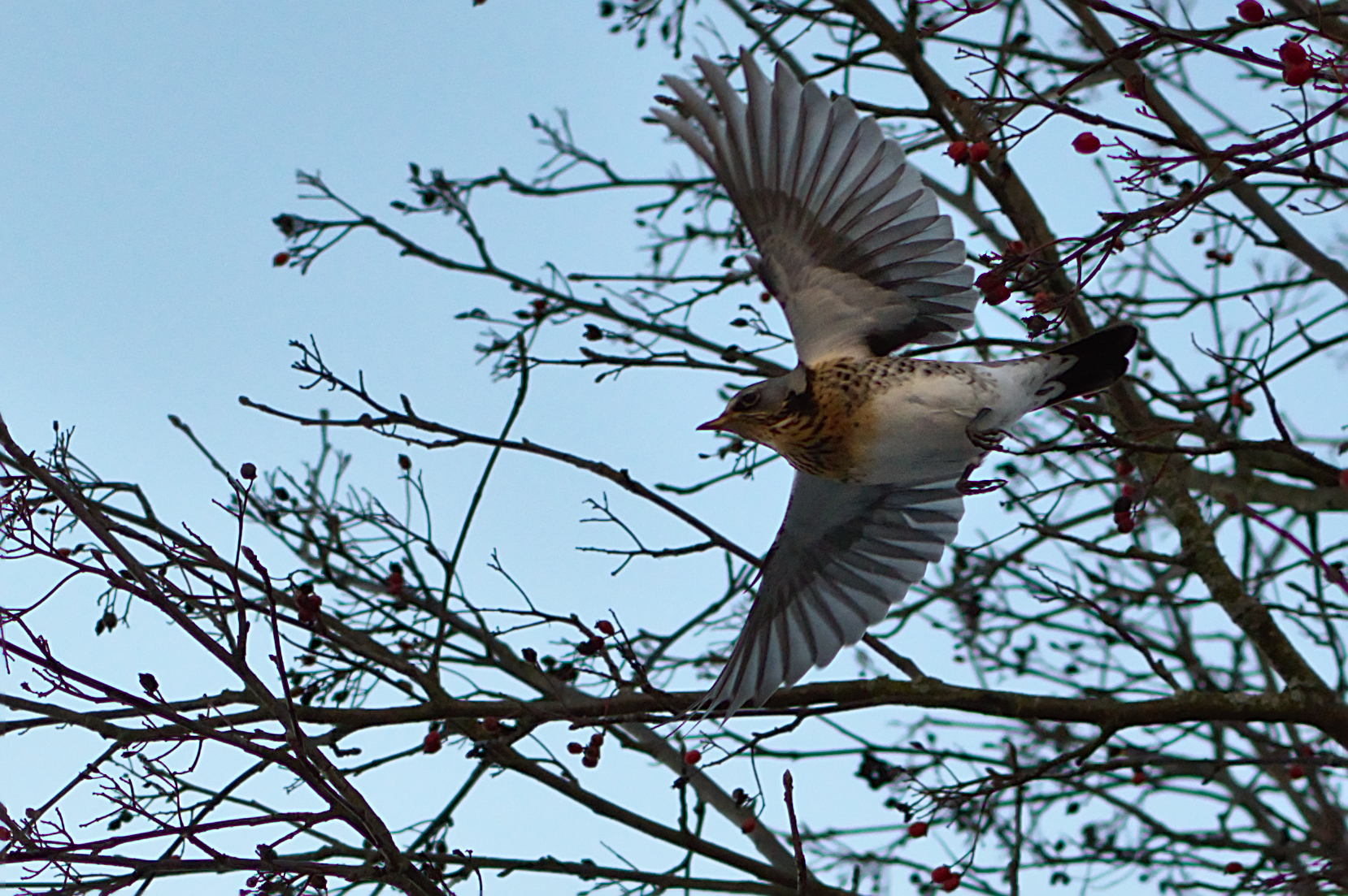 Turdus pilaris, in Sweden during winter.